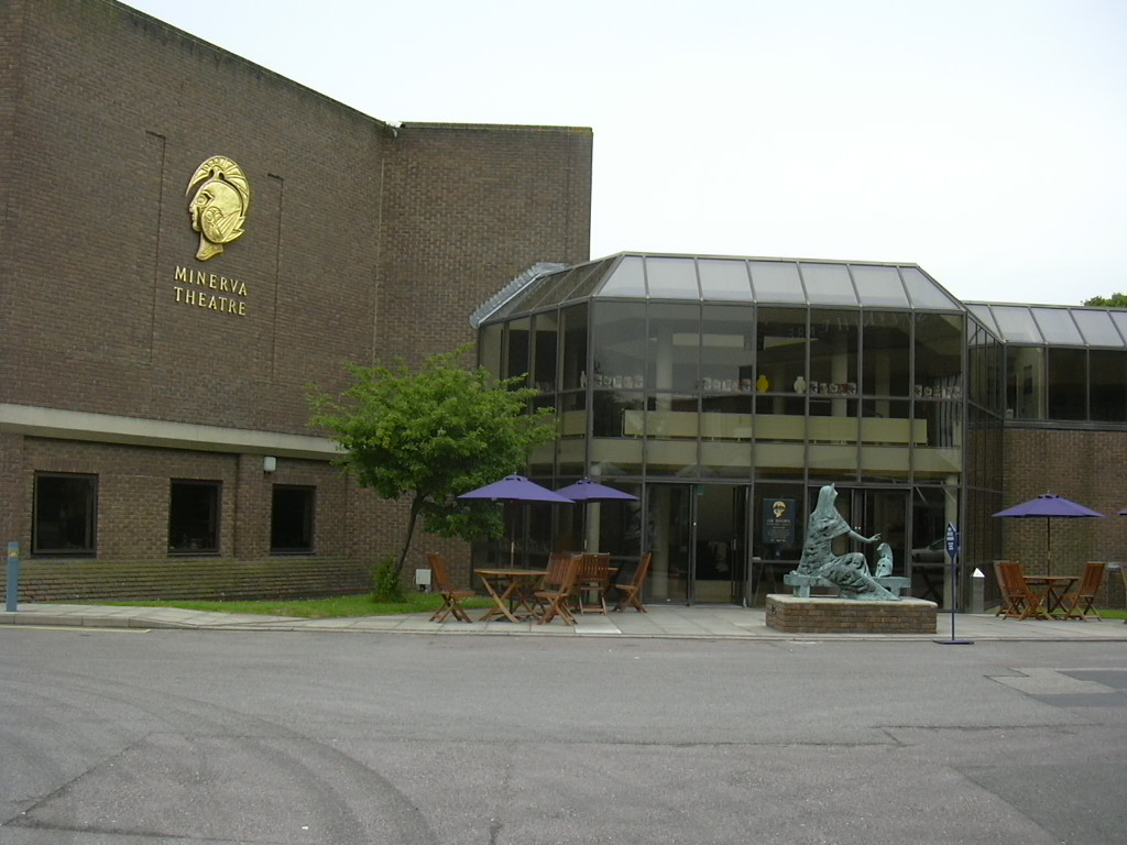 Minerva Theatre in Chichester, West Sussex, England